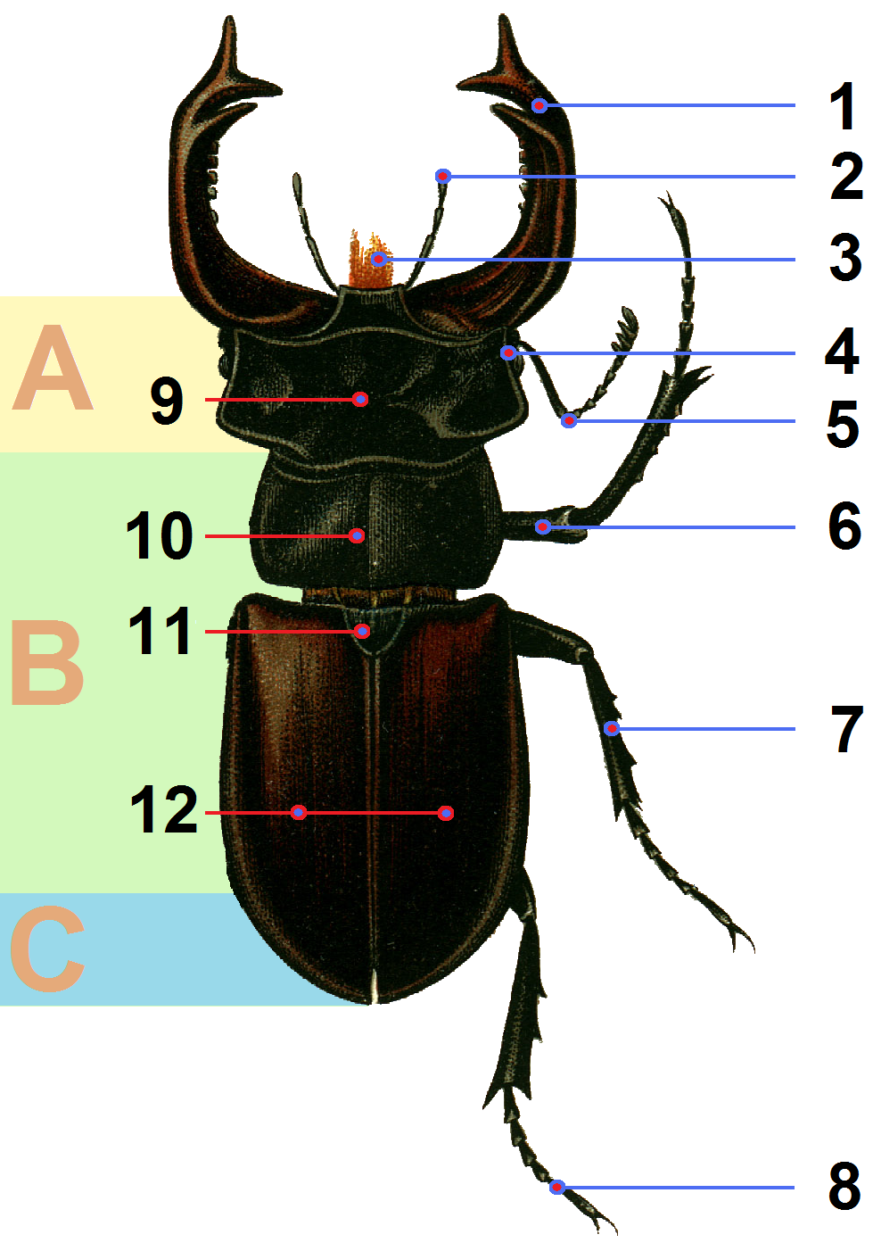 Illustration of monographs Georgiy Jacobson "Beetles Russia and Western Europe". Publisher: Devriena company. The first issue was released in 1905, the last - in 1915. Illustrations were mostly taken from the publication CG Calwers Kaeferbuch. Part of illustrations drawn O. Somina